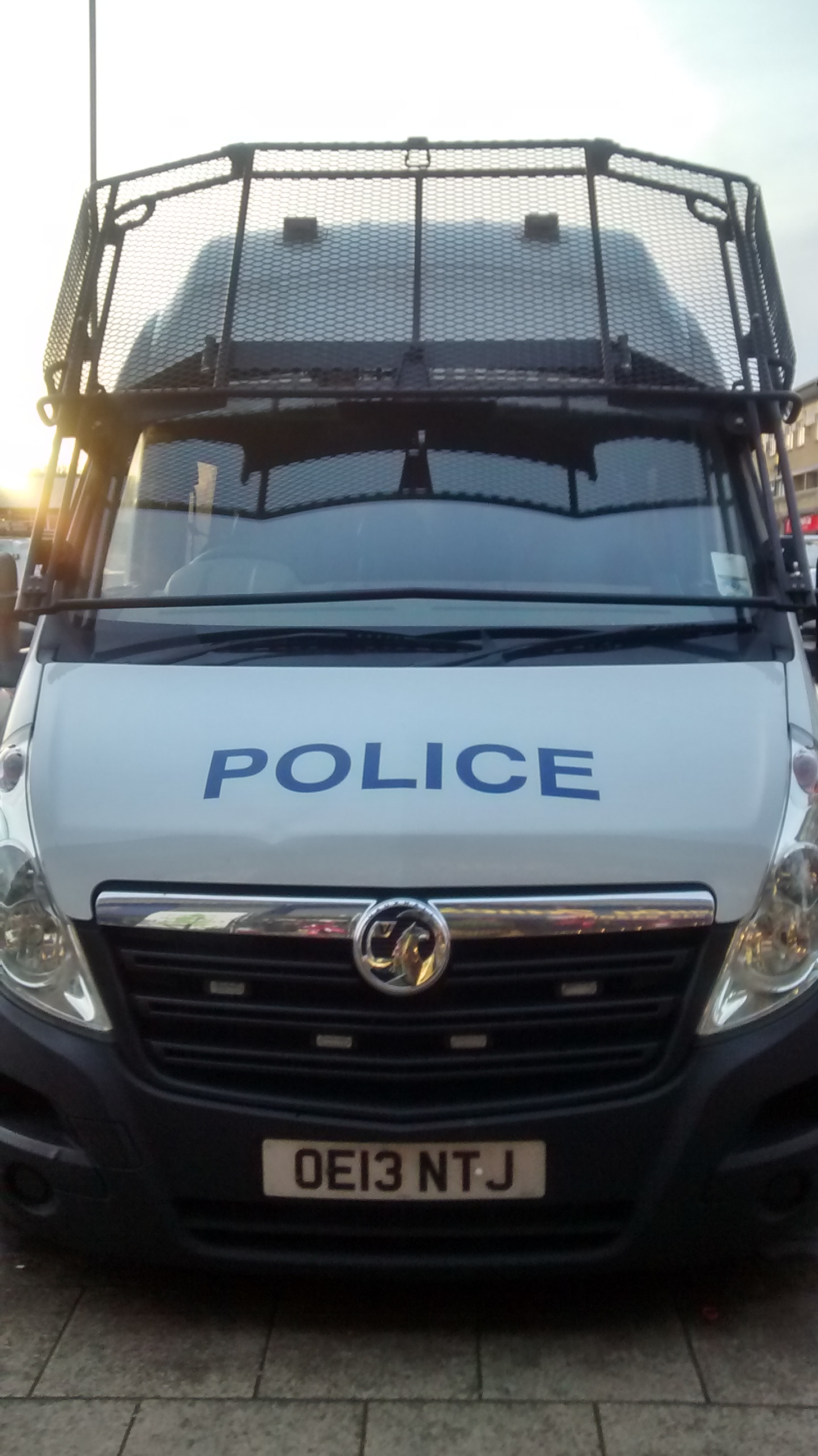 A Hertfordshire police van